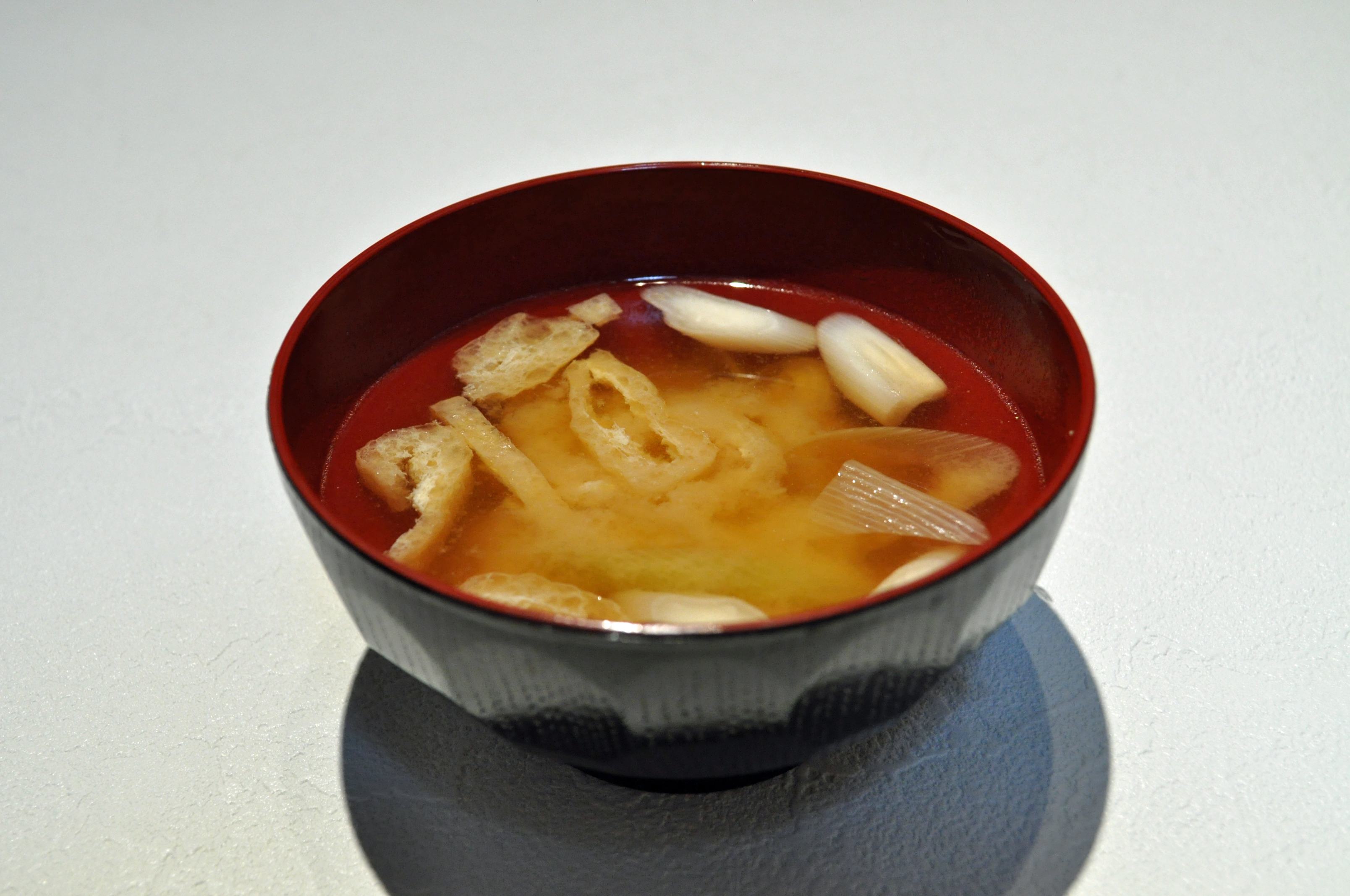 Green onion and deep-fried bean curd miso soup